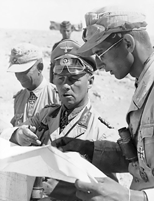 Field Marshal Erwin Rommel, Commander of the German forces in North Africa, with his aides during the desert campaign. 1942